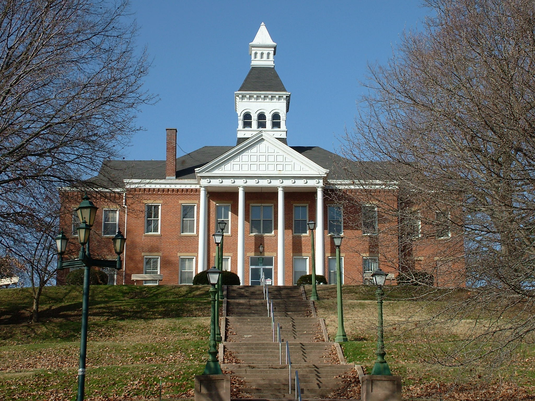 Common Pleas Court House, Cape Girardeau, MO.